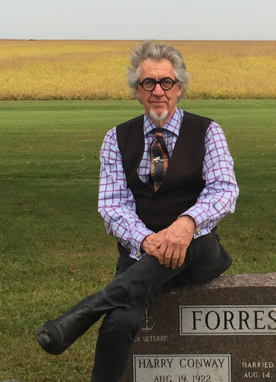 Photo of Jeshel Forrester at the family gravesite in Morrisonville, Illinois, 2016